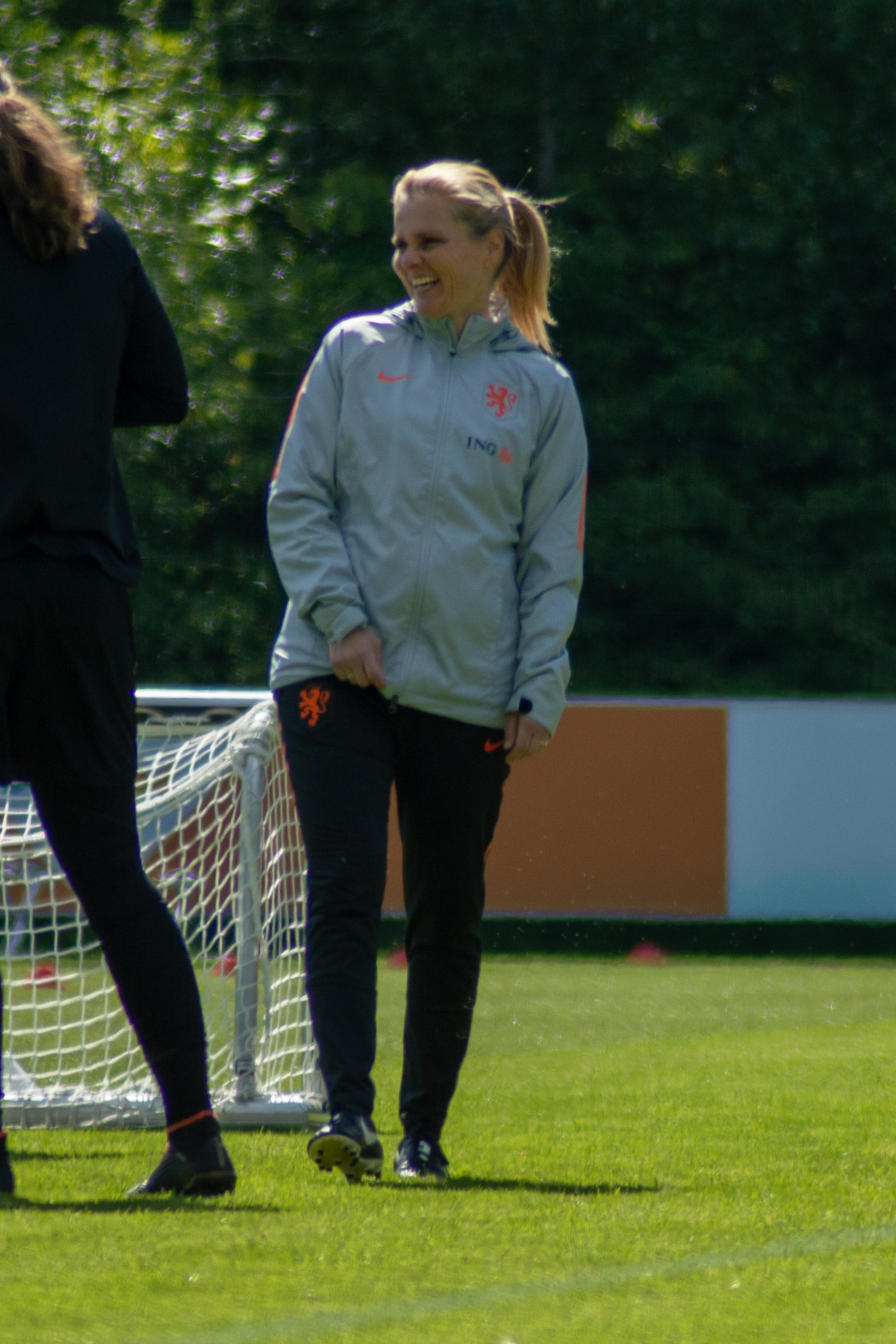 Sarina Wiegman, head coach of the Dutch women's national team, trains the squad in Zeist, The Netherlands, on May 14th, 2019.